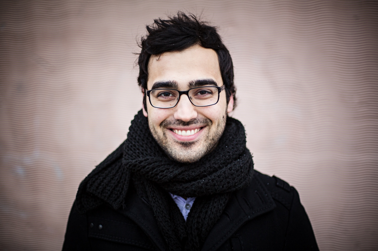 Ozan Yanar / Green League, Finland